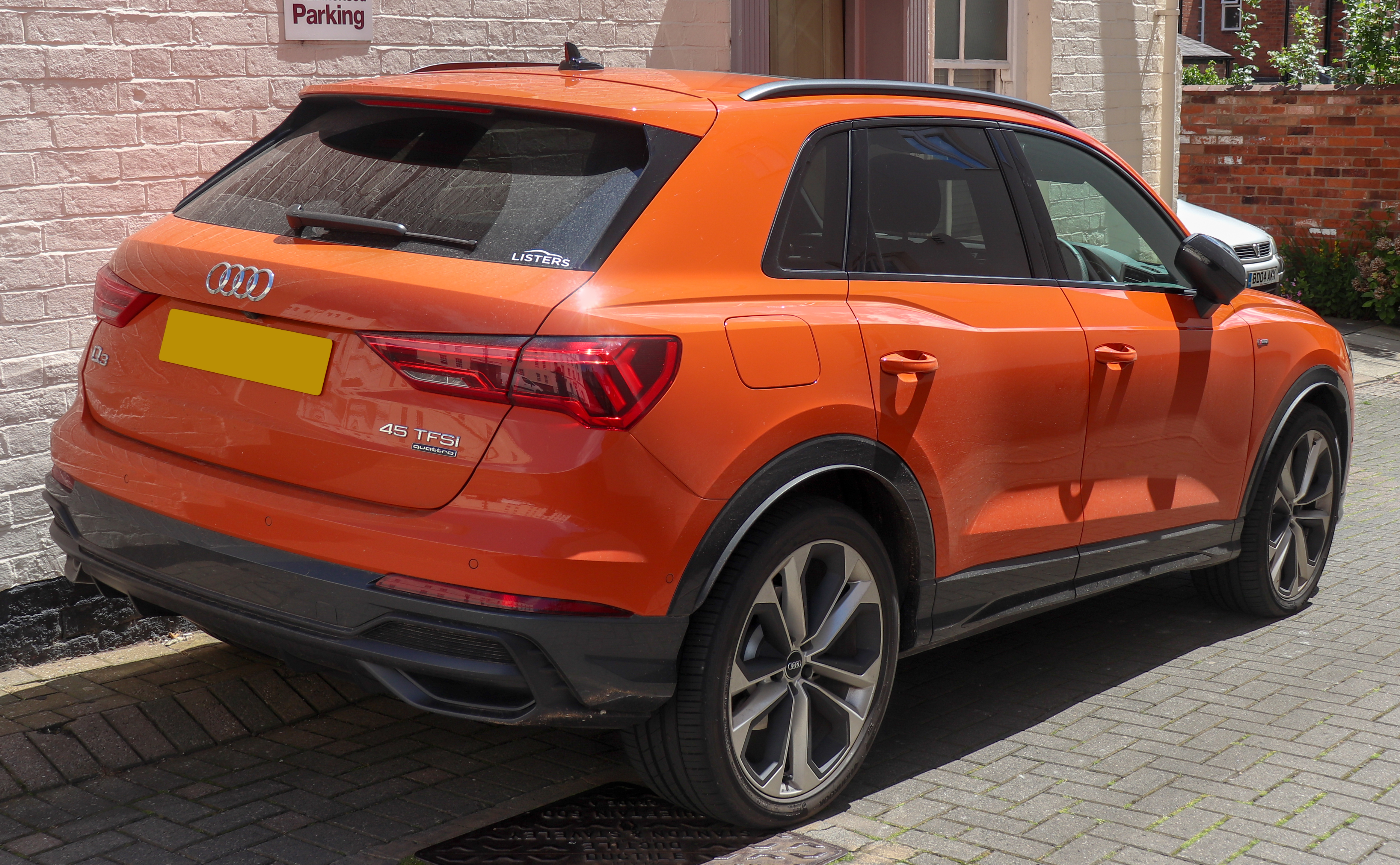 2019 Audi Q3 S Line 45 TFSi Quattro 2.0 Rear Taken in Leamington Spa